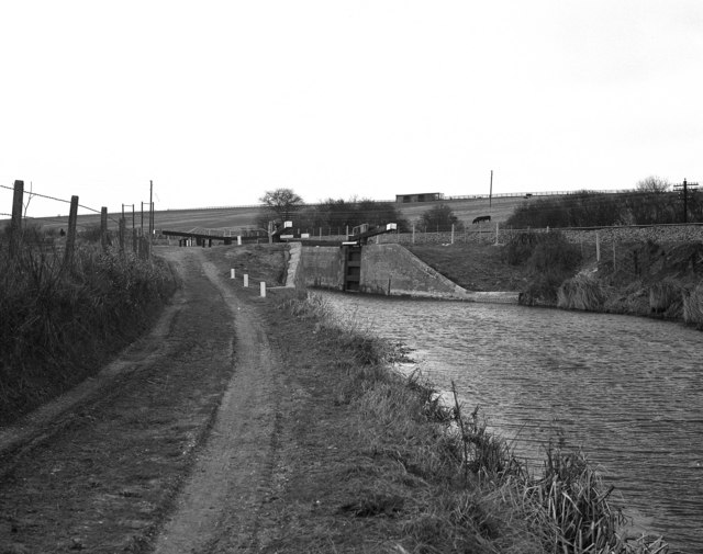 Froxfield Bottom Lock No 70 Seen from the east as in 1976, restored but not yet in use.